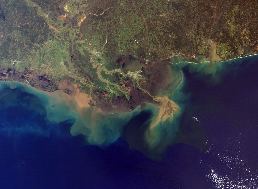 This is a true-color image, acquired from the Moderate Resolution Imaging Spectroradiometer (MODIS) aboard NASA’s Terra satellite on March 5, 2001. The sediment plume from the Mississippi River is at right, and the plume from the Atchafalaya River can be seen at the left.